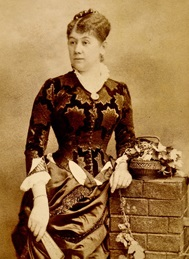 Glikeriya Fedotova (1846–1925), Russian actress, in 1887. This is a cropped version.